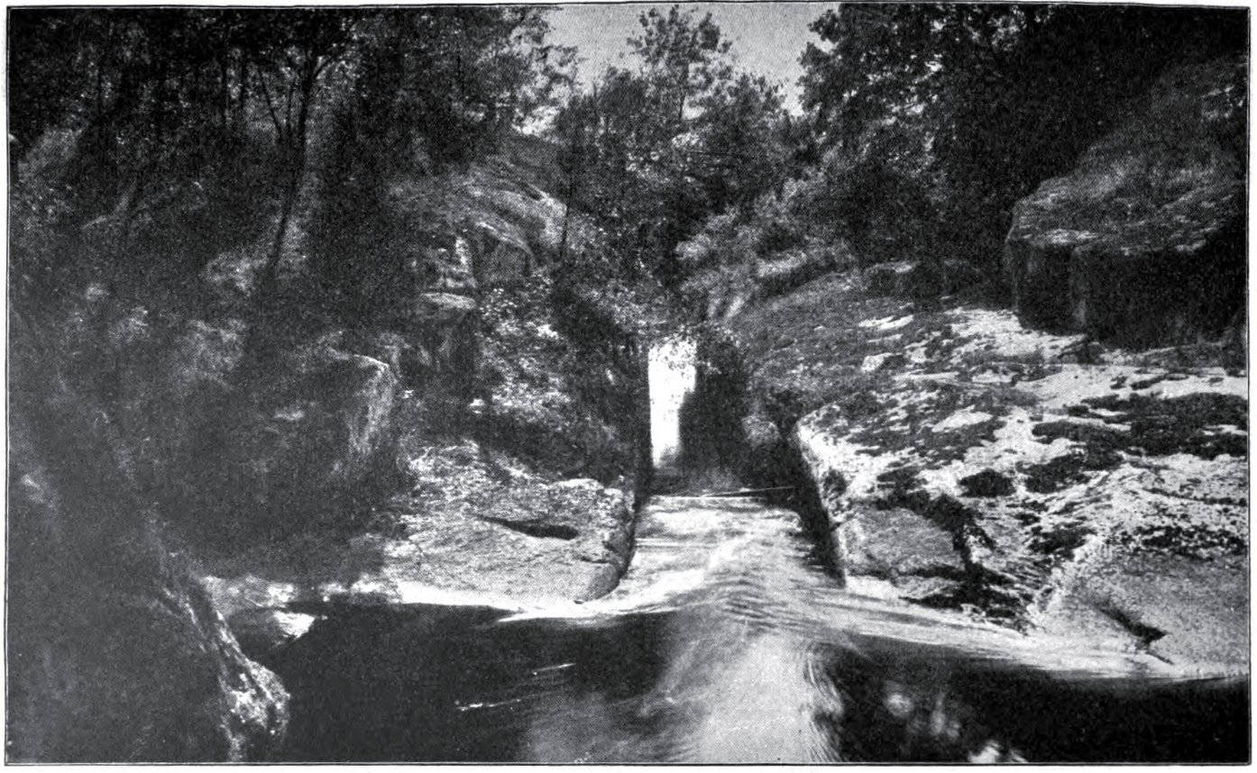 Photo of Djupafors by Signe Lundström from Nils Holgerssons underbara resa genom Sverige by Selma Lagerlöf.